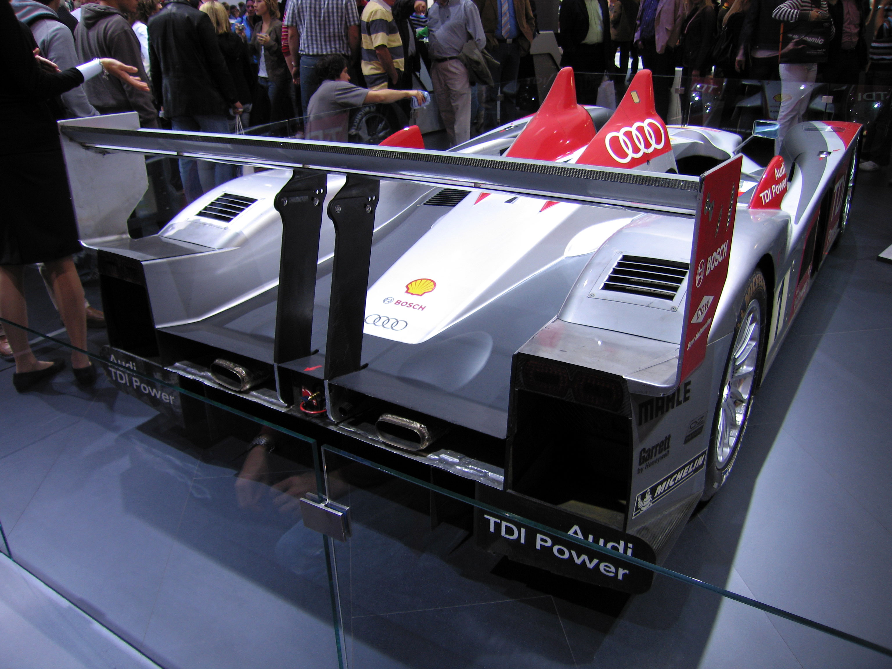 Audi R10 TDI at the IAA 2007